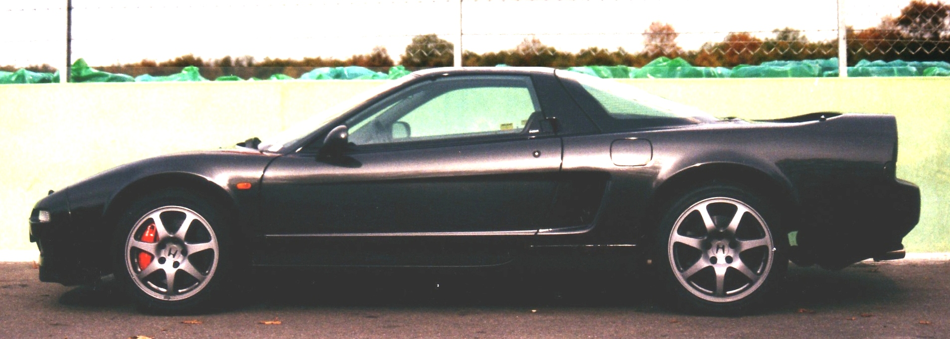 German Honda NSX 1998, side view, colour magnum grey pearl, red front brakes from Porsche 911 (993) turbo, adapted by Mov'it (Germany).